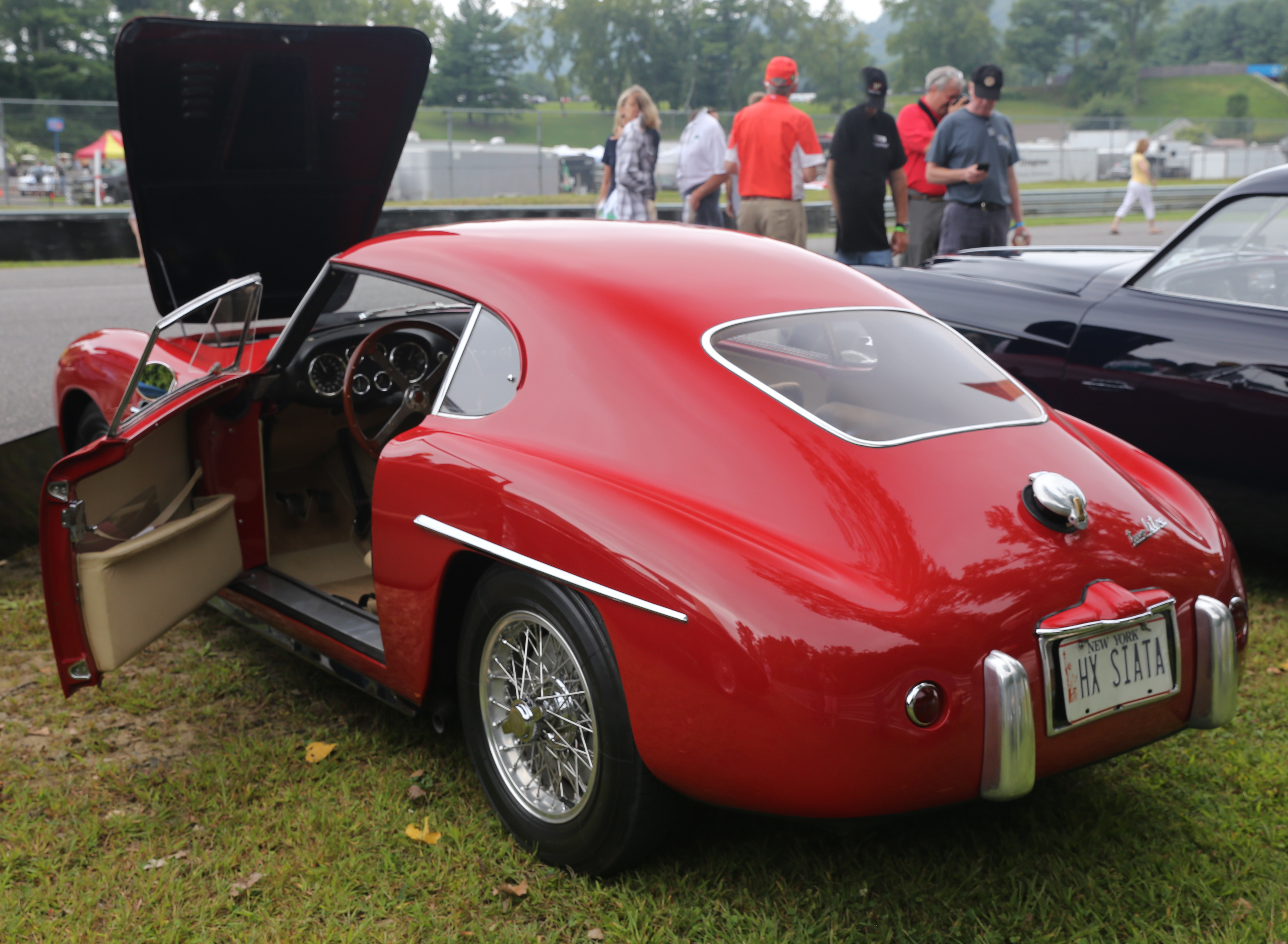 Rear view of a 1954 Siata 200CS (similar to the 208 C.S.) at the 2014 Lime Rock Concours d'Élegance. Chassis number CS071, engine number CS052. This is one of eleven Balbo-bodied coupés, six of which remain today.